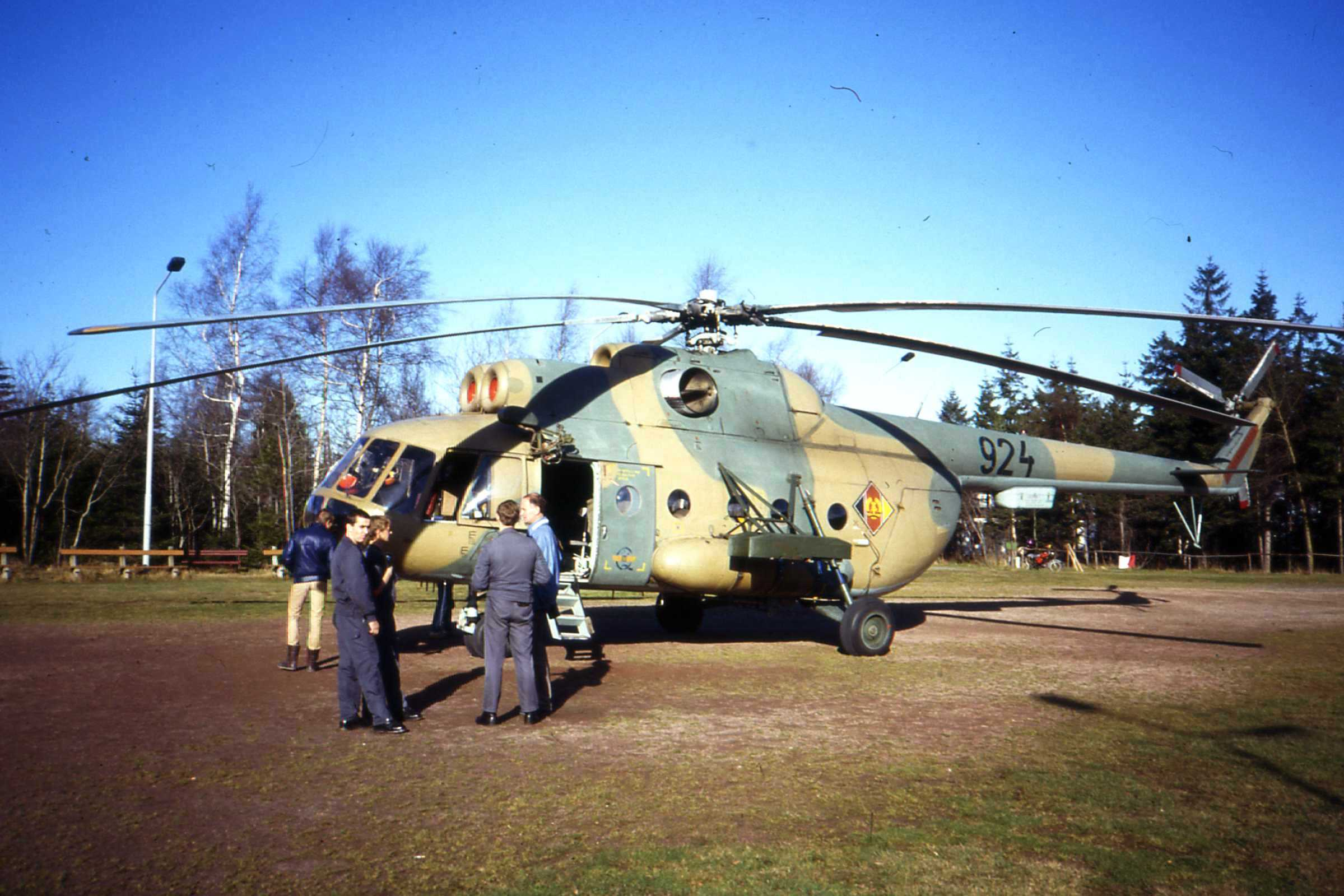 This Helicopter was attending to training sessions at the artificial Rennschlitten- und Bobbahn which was a specially built all-year toboggan and luge course. It was actually nearer to the high altitude resort of Oberbärenburg. Information about the course in English her e A Romanian Bob bahner had recently been badly injured in a crash there and subsequently died from his injuries. The NVA Helicopter Crew are wearing particularly fine shoes. The hubschrauber is an MI-8 (thanks below to @fotoparceiros for confirmation) of the Luftstreitkräfte der NVA, the Air Forces of the East German People's Army. For a list of DDR NVA kit when went under the hammer after 1990 see here. This site provides a construction number 10540 for this 1975 Mil MI-8, no 924 in the NVA, and states that it was dumped at Hoyerswerda. Similar craft no 927 is in the Luftwaffenmuseum Berlin-Gatow. According to a thread ,924 became 23+10 in the unified German Luftwaffe and flew with the LTG 65 (Lufttransportgruppe) until 1994.